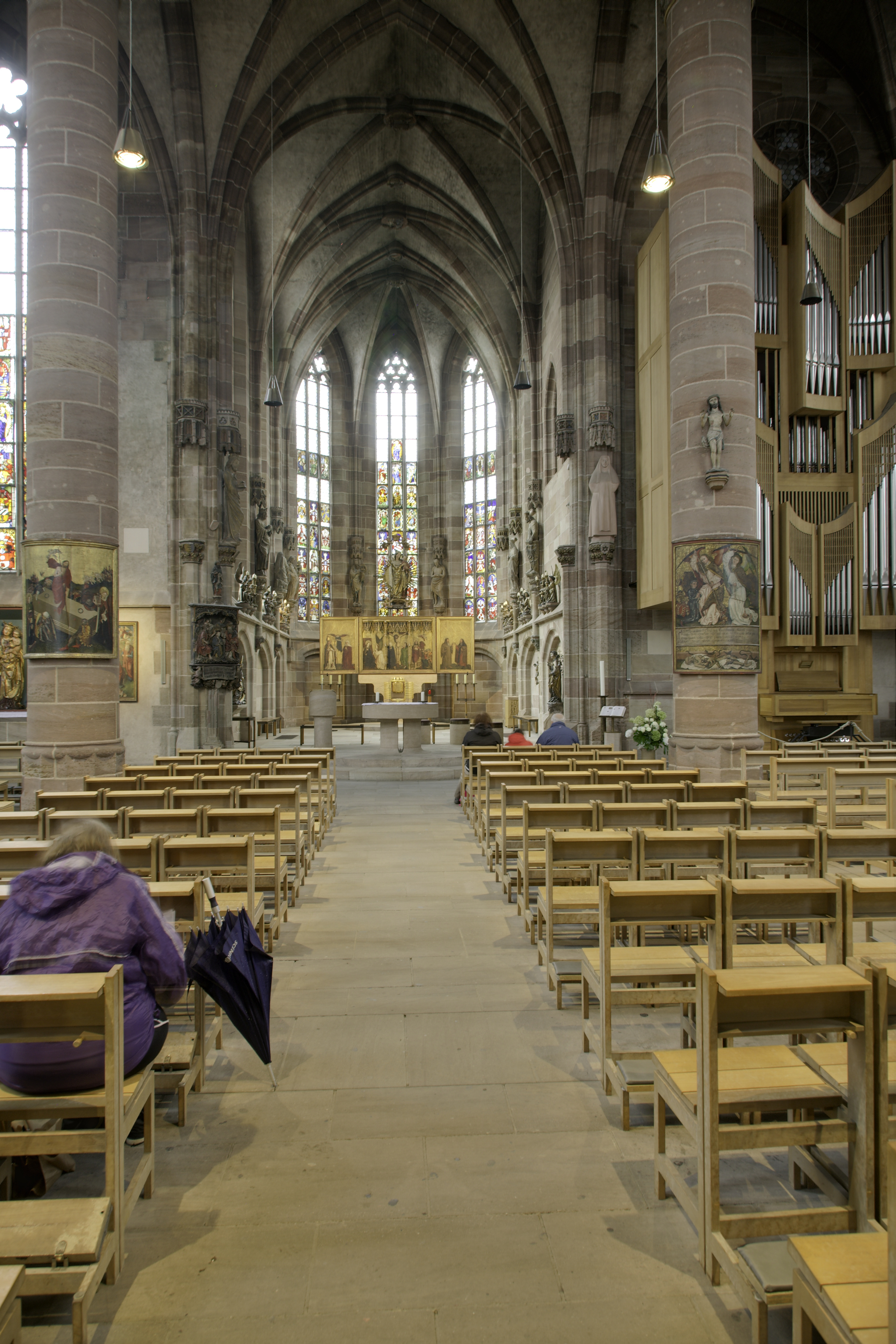 Frauenkirche Nuremberg